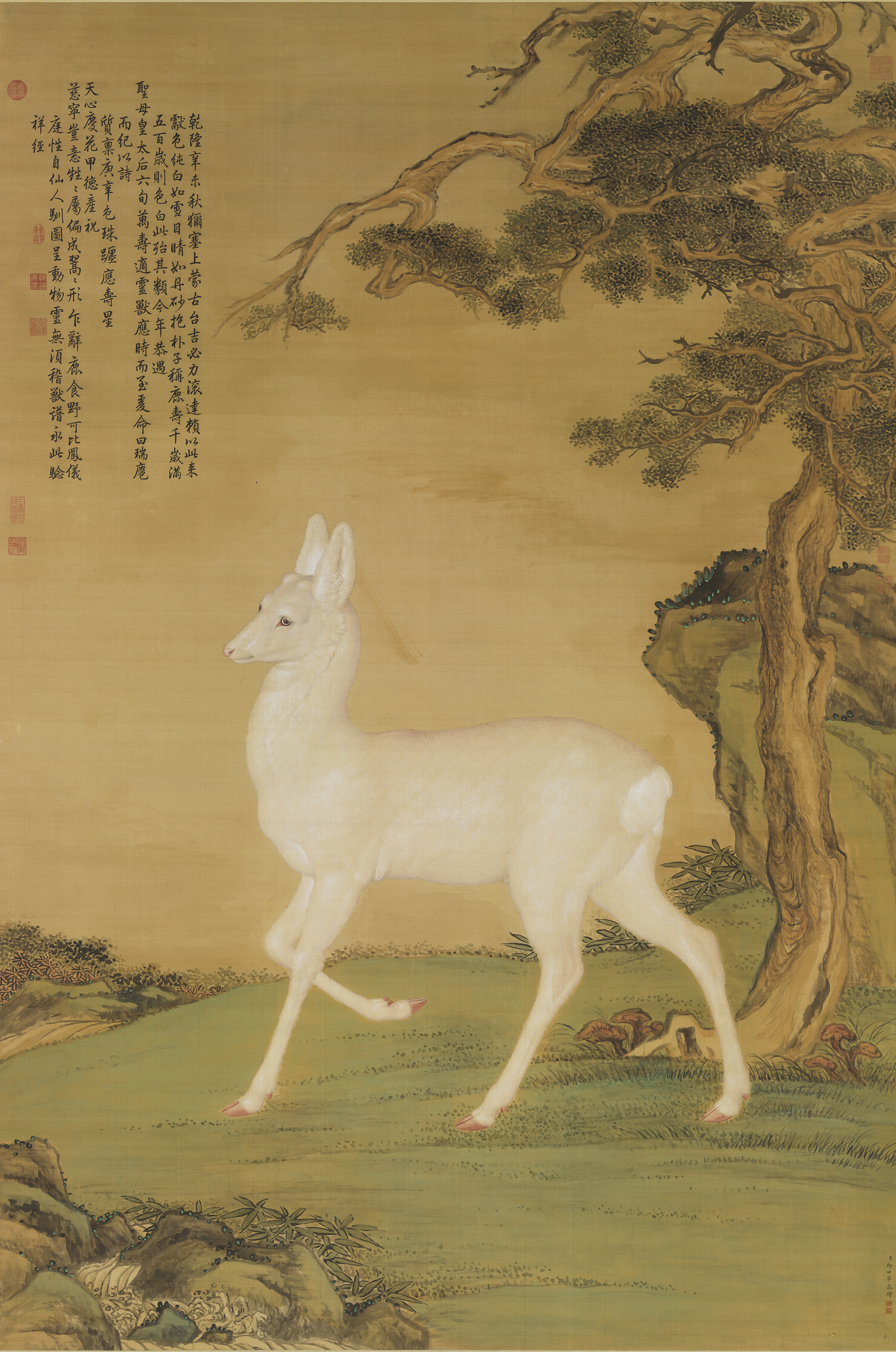 "In the autumn of 1751, the Qianlong emperor accompanied Empress Dowager Chongqing on a tour of the summer mountain retreat. Qianlong also traveled to the Mulan hunting grounds, where he was entertained to a banquet by Mongolian nobility. The Mongol Taiyiji presented a roe deer as an offering, its fur as white as snow and eyes sparkling red. According to Ge Hong’s (283-343) Baopuzi, the deer has a lifespan of a thousand years, turning white after reaching the age of 500. In this painting, the white roe deer has large ears and eyes, a long neck, and a short tail, serving as a symbol of good fortune and nobility as well." (source